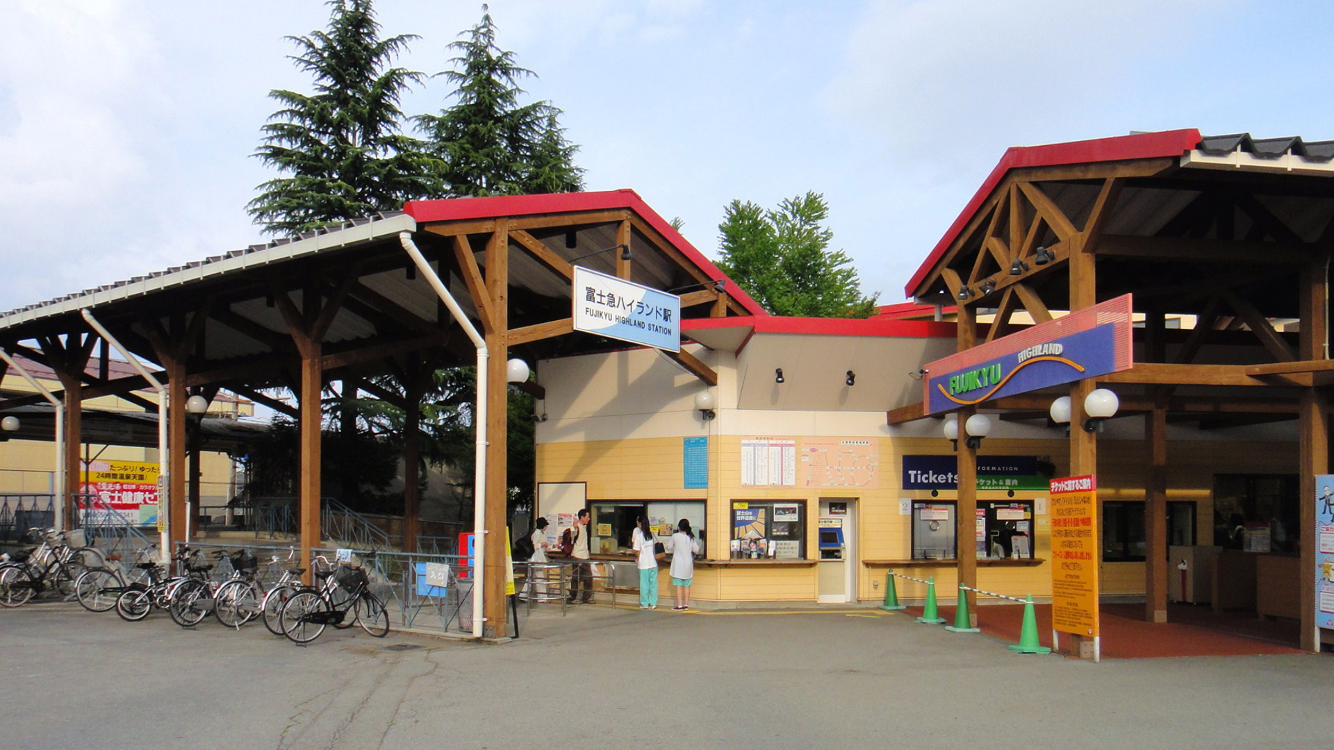 Entrance to Fujikyu Highland Station on the Fujikyuko Line in Yamanashi Prefecture, Japan, with the entrance to the adjoining FujiQ Highland theme park on the right